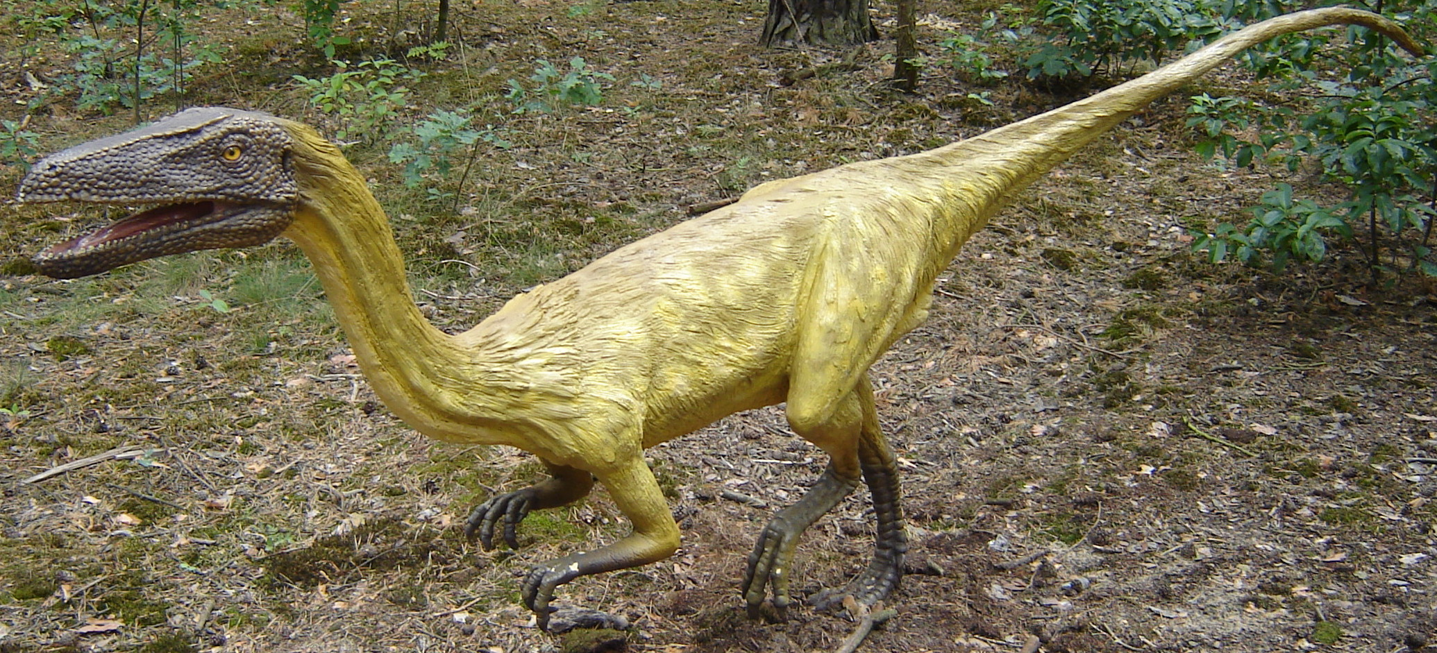 Model of Coelophysis in JuraPark, Solec Kujawski, Poland